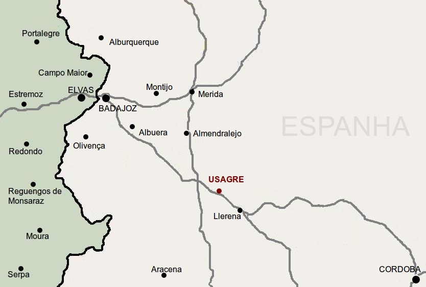 Map showing the location of Usagre, Llerena, Spain